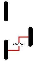 Diagram showing the sidecar wheel lead - the offset between the sidecar axle and real motorcycle axle.